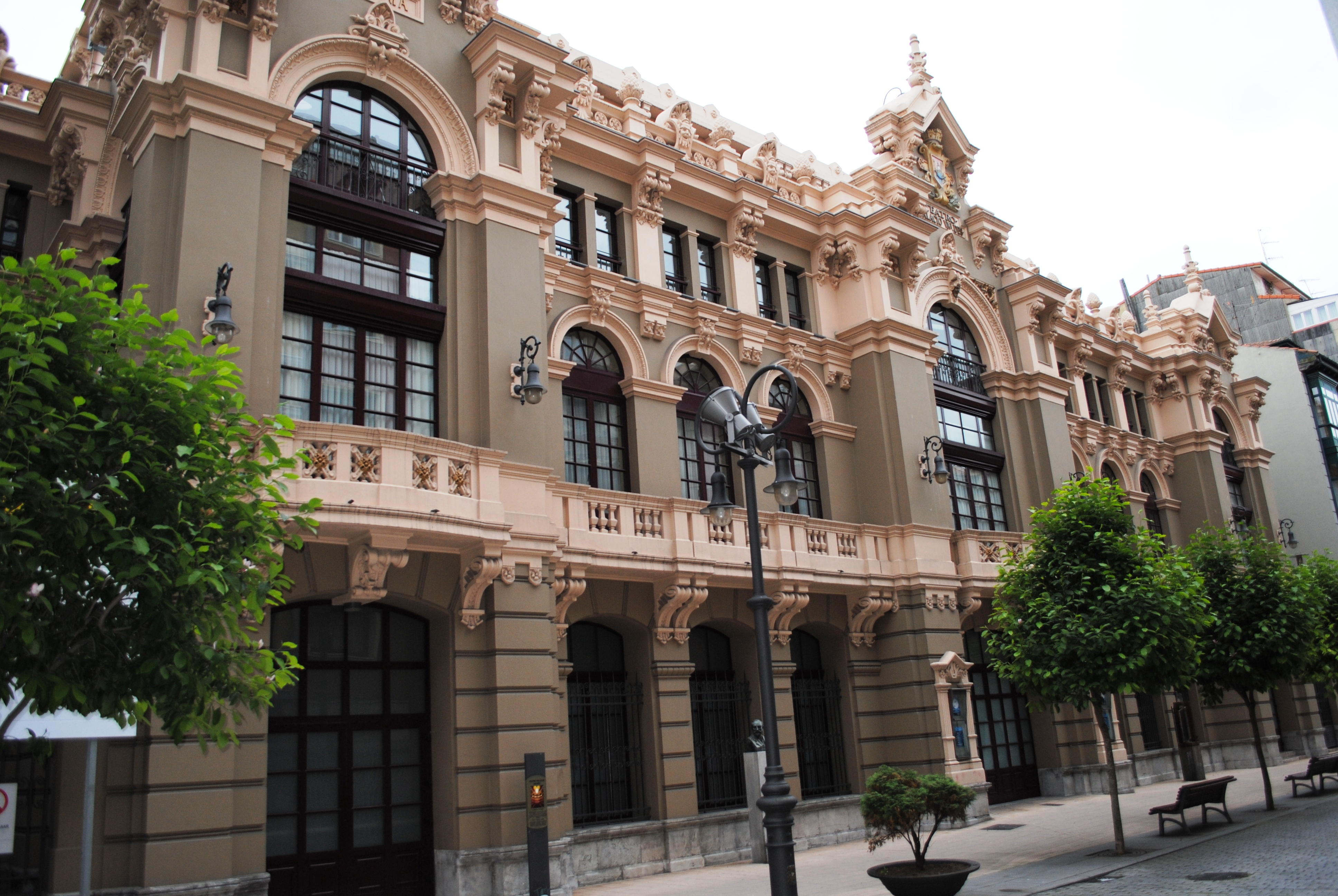 See title.